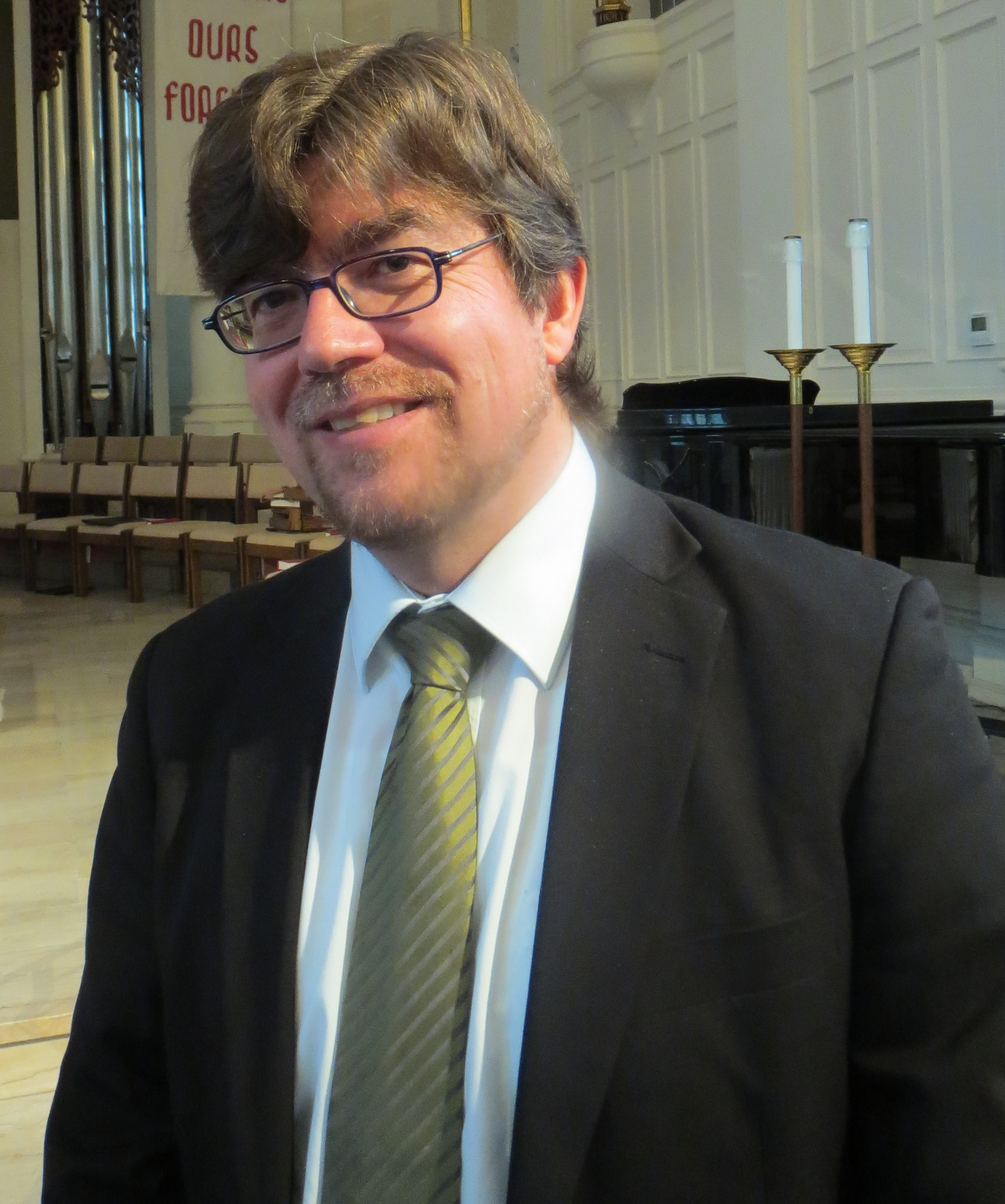 Volker Leppin in Gettysburg Seminary Chapel, Oct 2013